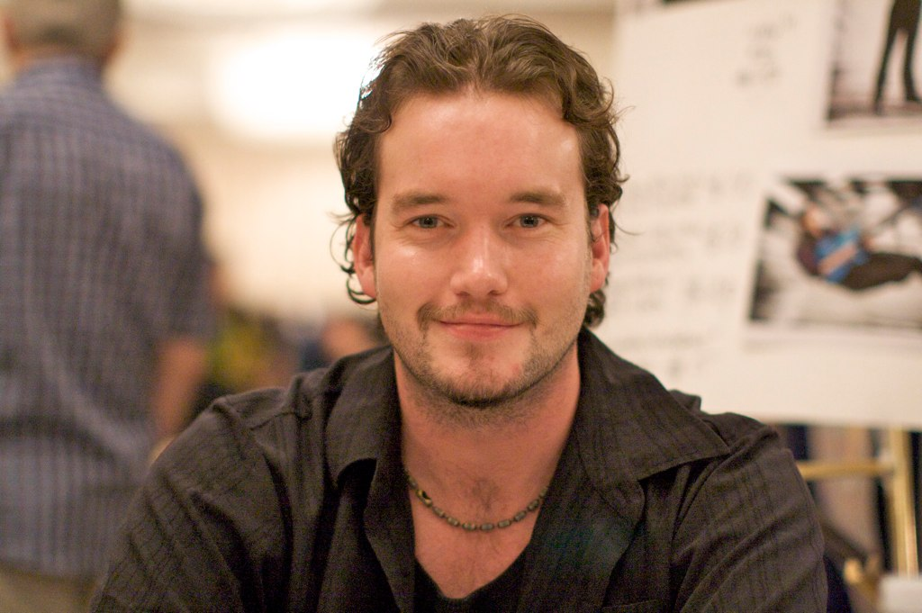 Dragoncon 2009, Friday,Gareth David-Lloyd (Ianto Jones) from the British TV show Torchwood.